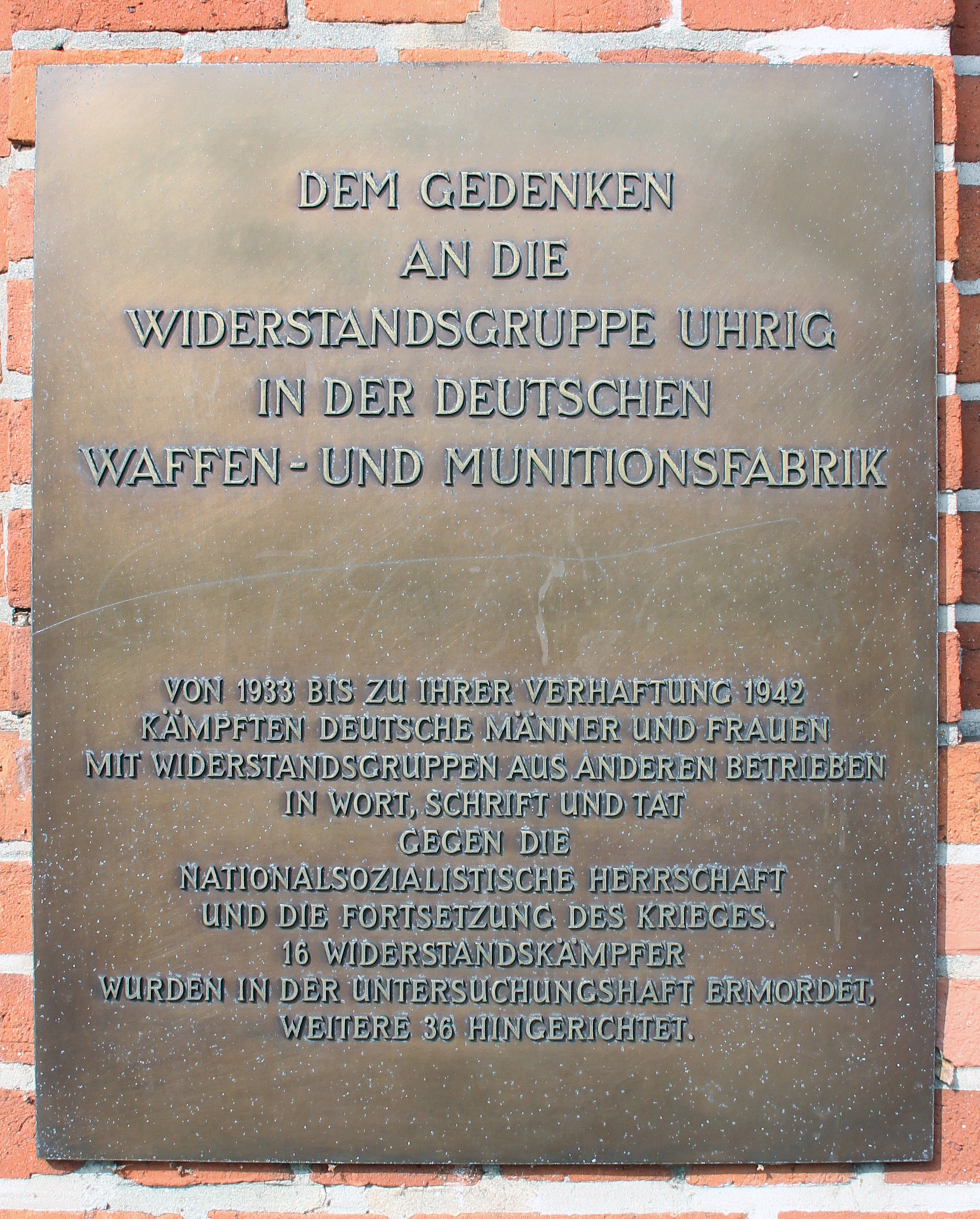 Memorial plaque, Widerstandsgruppe Uhrig, Eichborndamm 107, Berlin-Borsigwalde, Germany